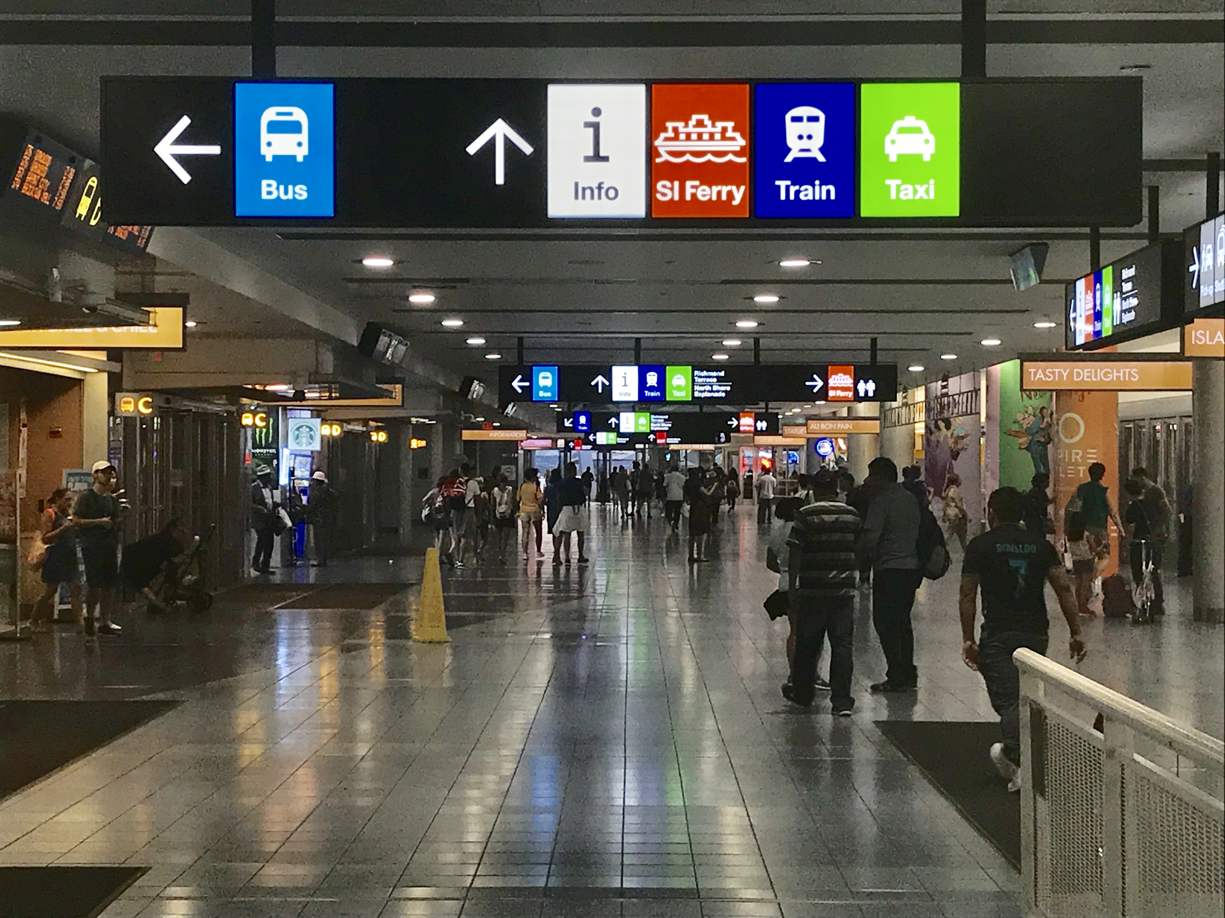 Looking down the main concourse of the St. George Terminal in Staten Island, New York